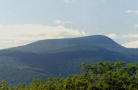 Slide Mountain, highest in the Catskill Mountains, New York, USA, seen from Ashokan High Point